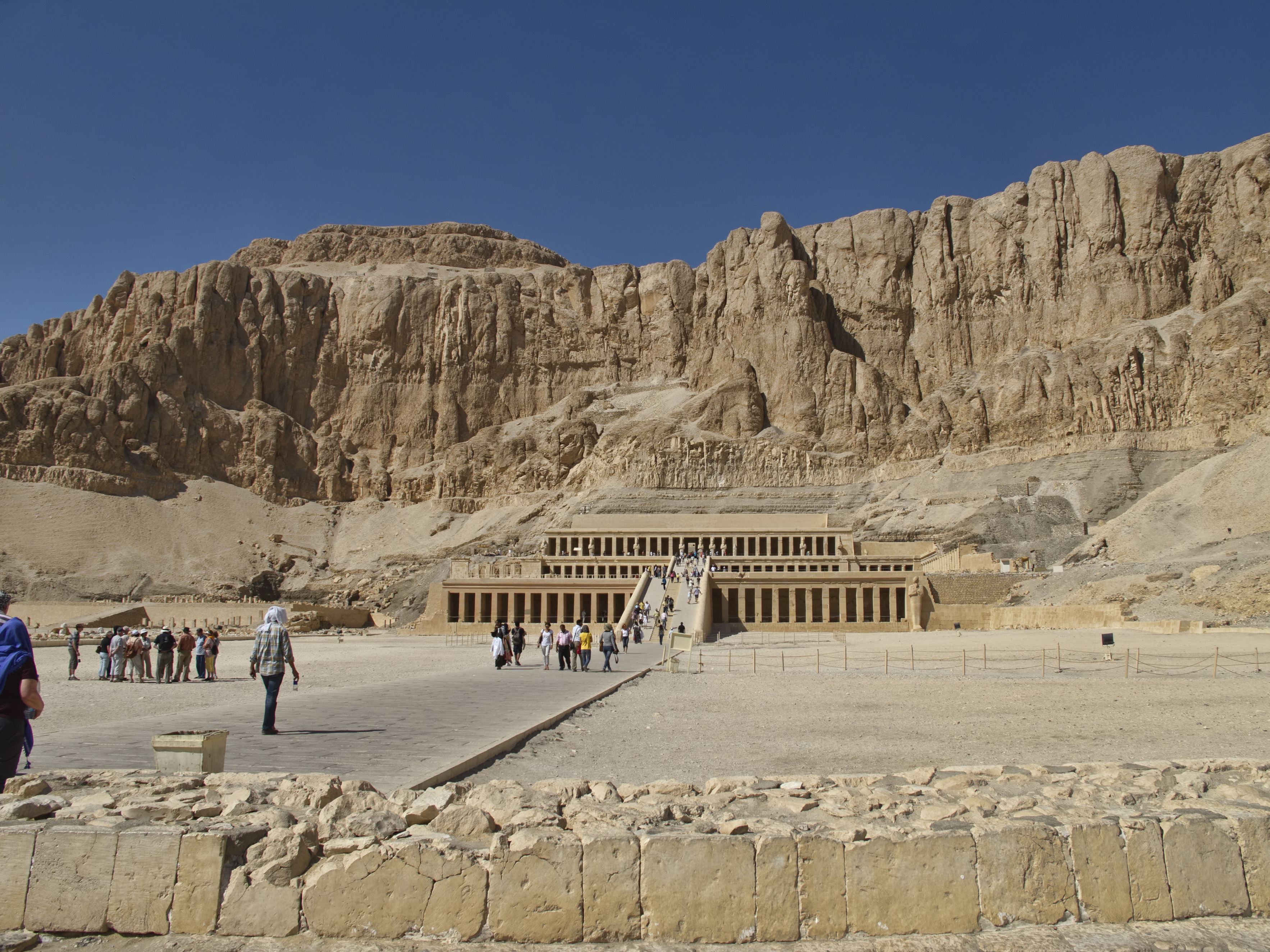 Thebes is on the west bank of the Nile opposite Luxor. Hidden in the mountains is the Valley of the Kings where King Tut's tomb was the 62nd royal tomb discovered there (by Howard Carter on 4 November 1922). Cameras are not allowed in the Valley. [Pyramids scream "Here I am! Loot me!" so pharaohs ultimately realized that secrecy is a better approach.] This is the Mortuary Temple of Hatshepsut, the only woman to rule as pharaoh (18th Dynasty, 1473-1458 BCE). On the Lower and Middle Terraces, she planted myrrh trees which were among the acquisitions she personally made on an expedition to the Land of Punt (thought to be modern-day Somalia), the most famous voyage in Ancient Egyptian history. In November 1997, Islamist terrorists shot or stabbed to death 58 tourists and four guards on the Middle Terrace. [In the late 1840's David Roberts published a lithograph of the Valley of the Kings. ] On Google Earth: Mortuary Temple of Hatshepsut [Deir el-Bahri] 25°44'17.17"N, 32°36'25.27"E Valley of the Kings 25°44'24.58"N, 32°36'4.32"E